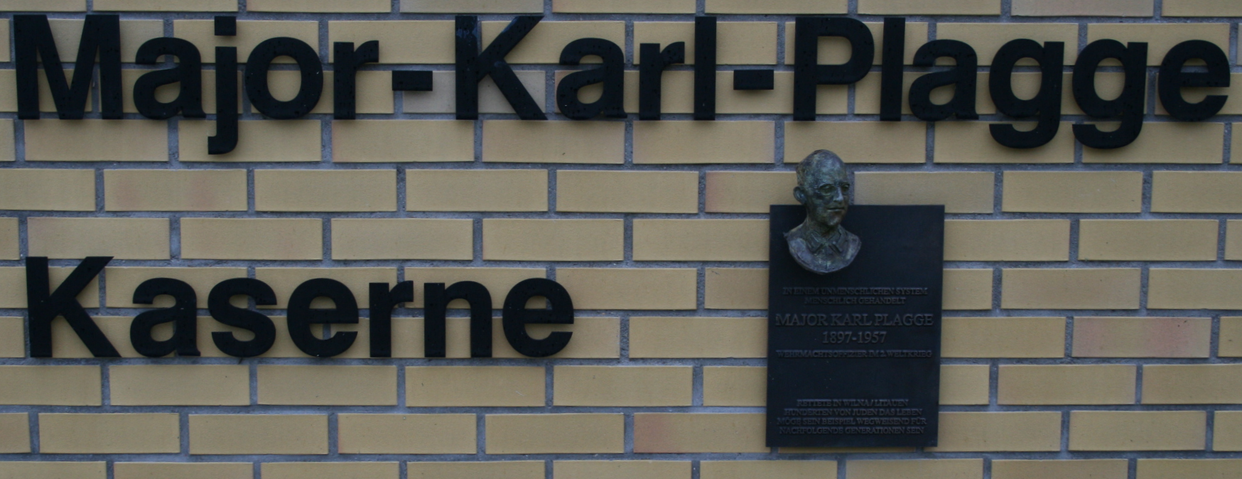 Entrance of Major Karl Plagge caserne near Darmstadt, Hesse